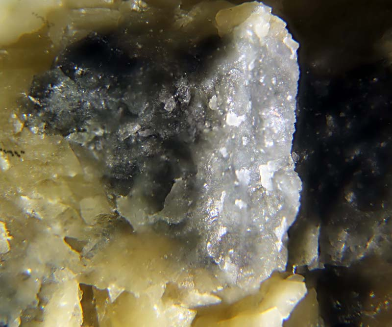 Grey crystal aggregates of the extremely rare mineral luzlacite from the type and only known locality worldwide: Bois De La Roche Quarry, Saint Aubin des Chateaux, Pays de Loire, France.